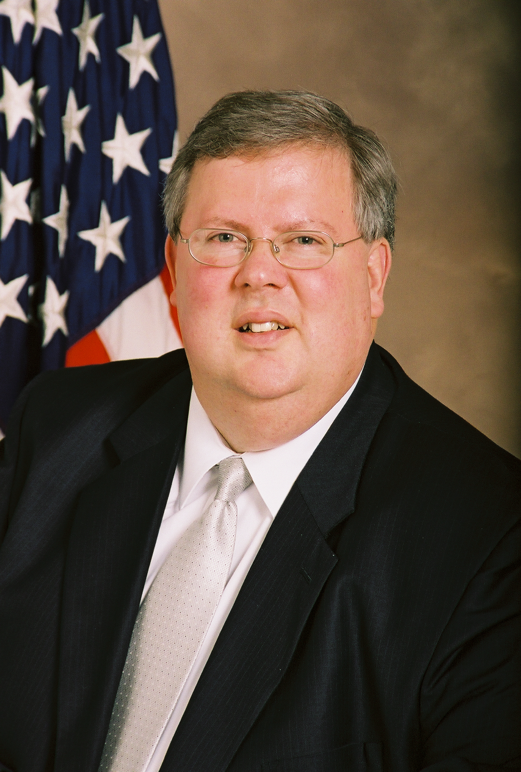 A photo of Brian D. Montgomery, Assistant Secretary Housing - Federal Housing Commissioner (2005-2009) and Acting Secretary of Housing and Urban Development (2009)